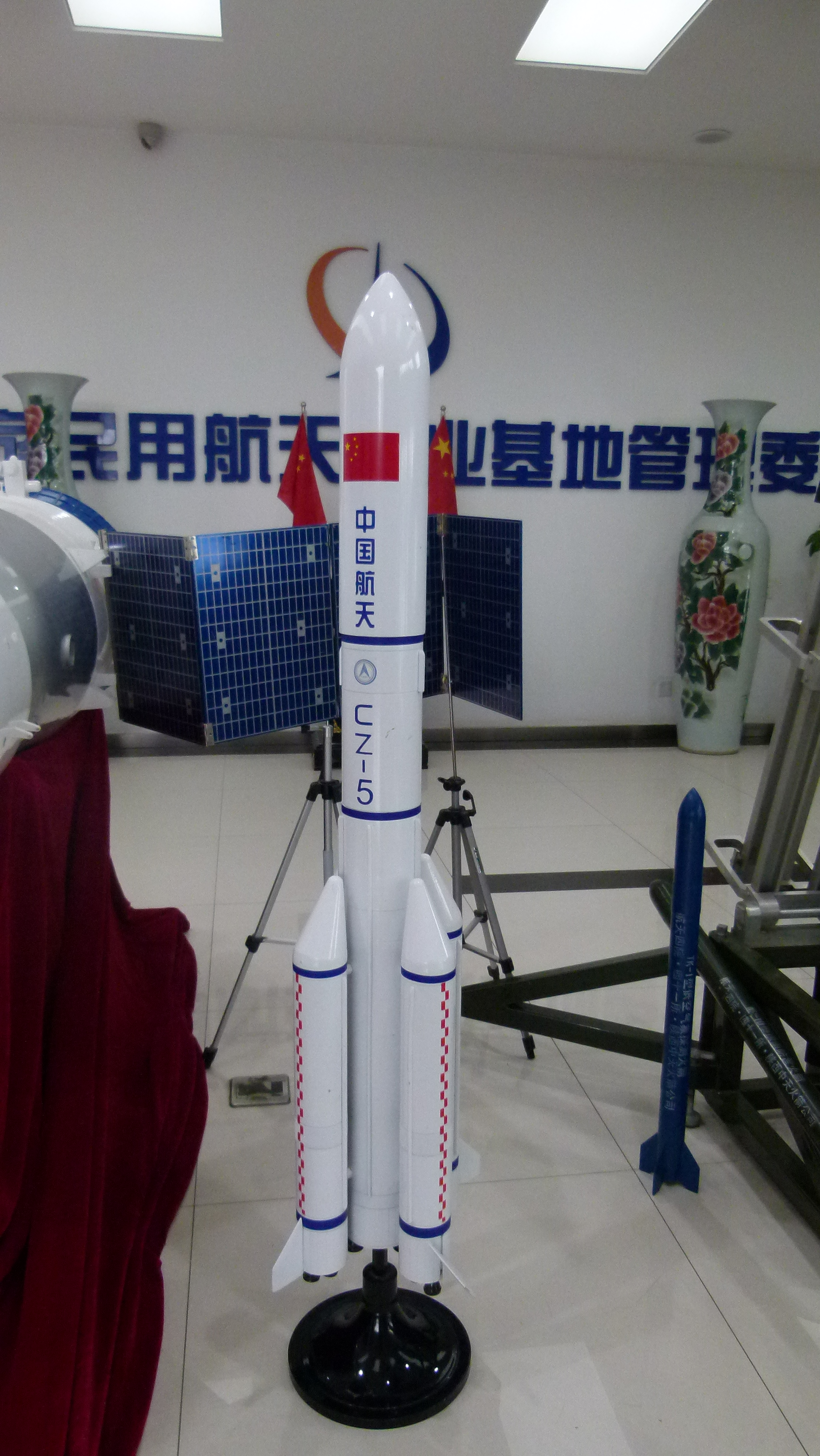 Model of the Chinese rocket CZ-5, Show room in the Xi'an Natonal Civil Aerospace Industrial Base